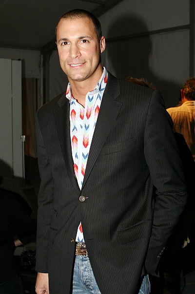 Nigel Barker, English photographer and judge on America's Next Top Model